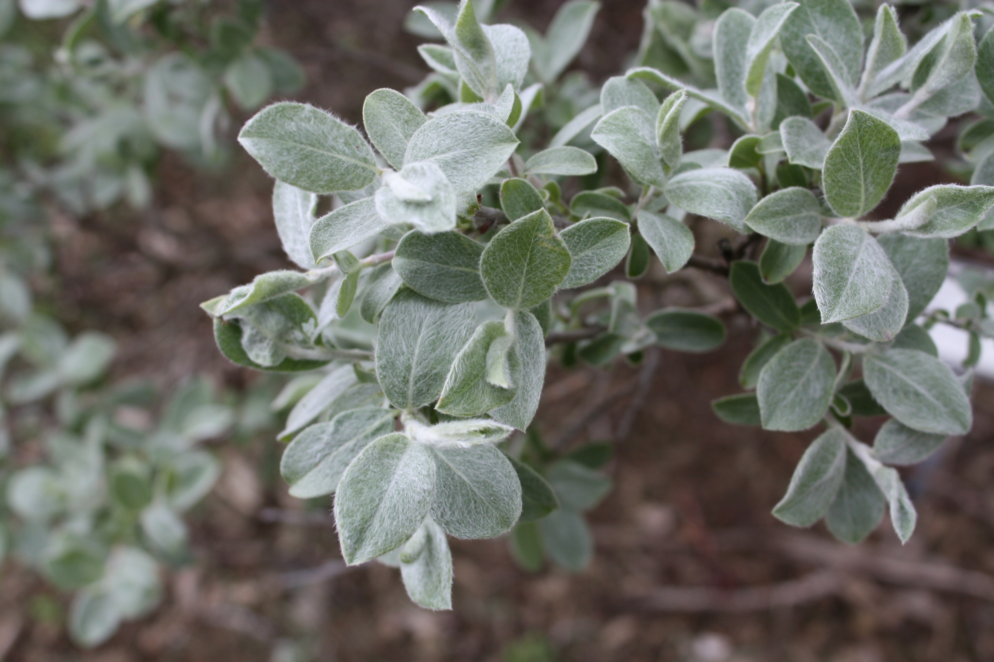 Salix glauca in Grasagarður Reykjavíkur the Reykjavik Botanic Garden